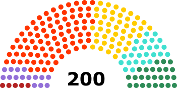 Conformation of the 54th Thing (Upper House of the Kingdom of Talossa)